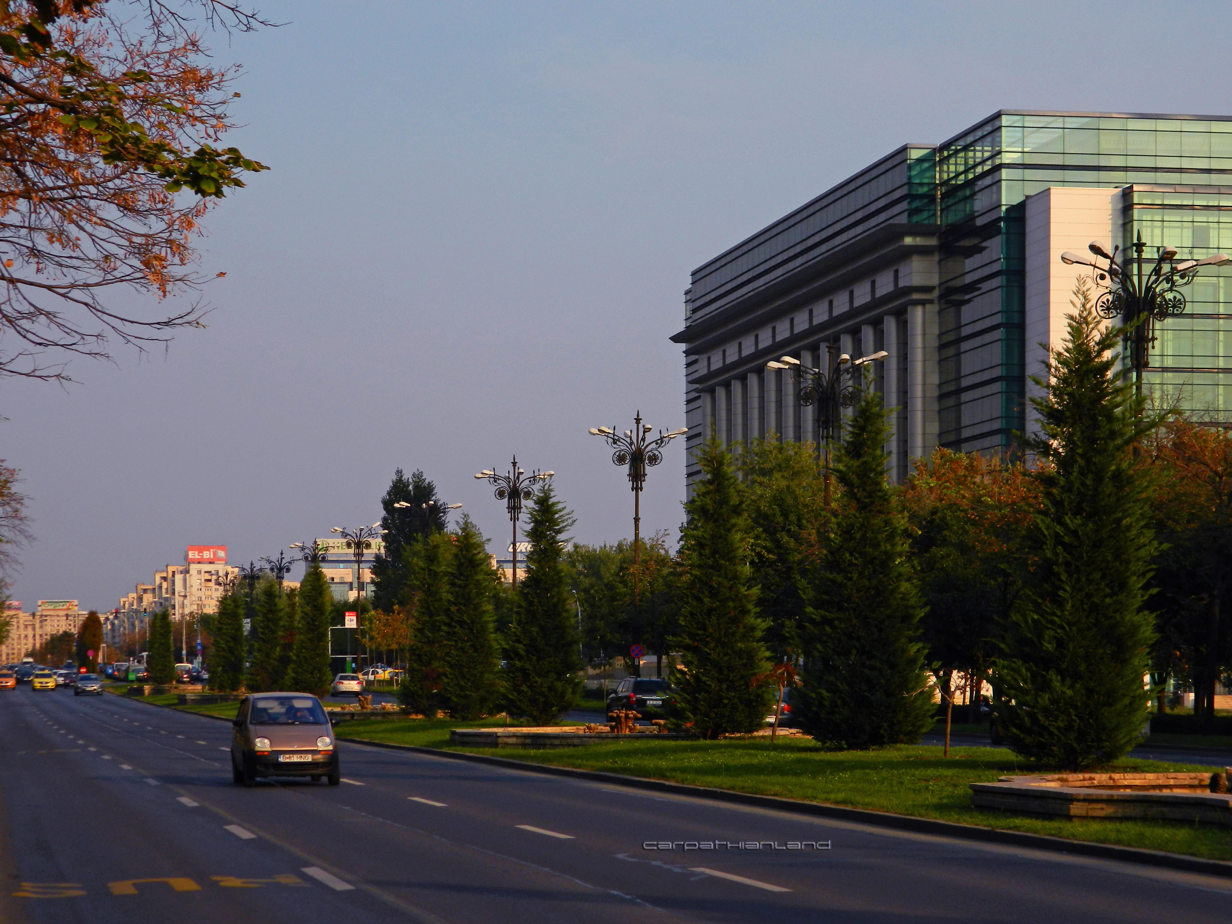 Unification Boulevard, Bucharest